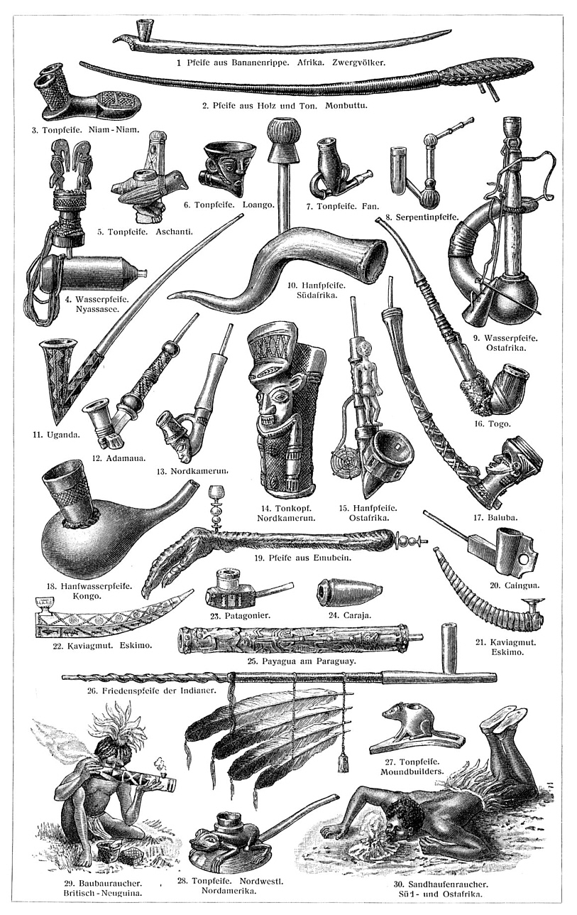 Various smoking implements from 1905. Meyers großes Konversations-Lexikon. -- 6. Aufl.